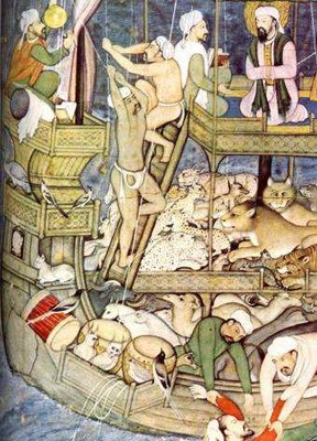 This detail from a 16th century Mogul miniature gives a Moslem interpretation of Noah and the Flood. Notice how the cat calmly sits aloof from the rest of the passengers on the ark and seems unconcerned about the activity around her. [16th century, Noah and the Flood (detail), Mogul, miniature]